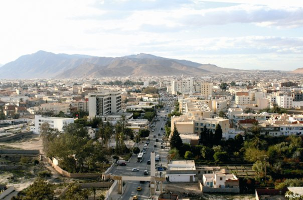 centre ville of Gafsa, Tunisia